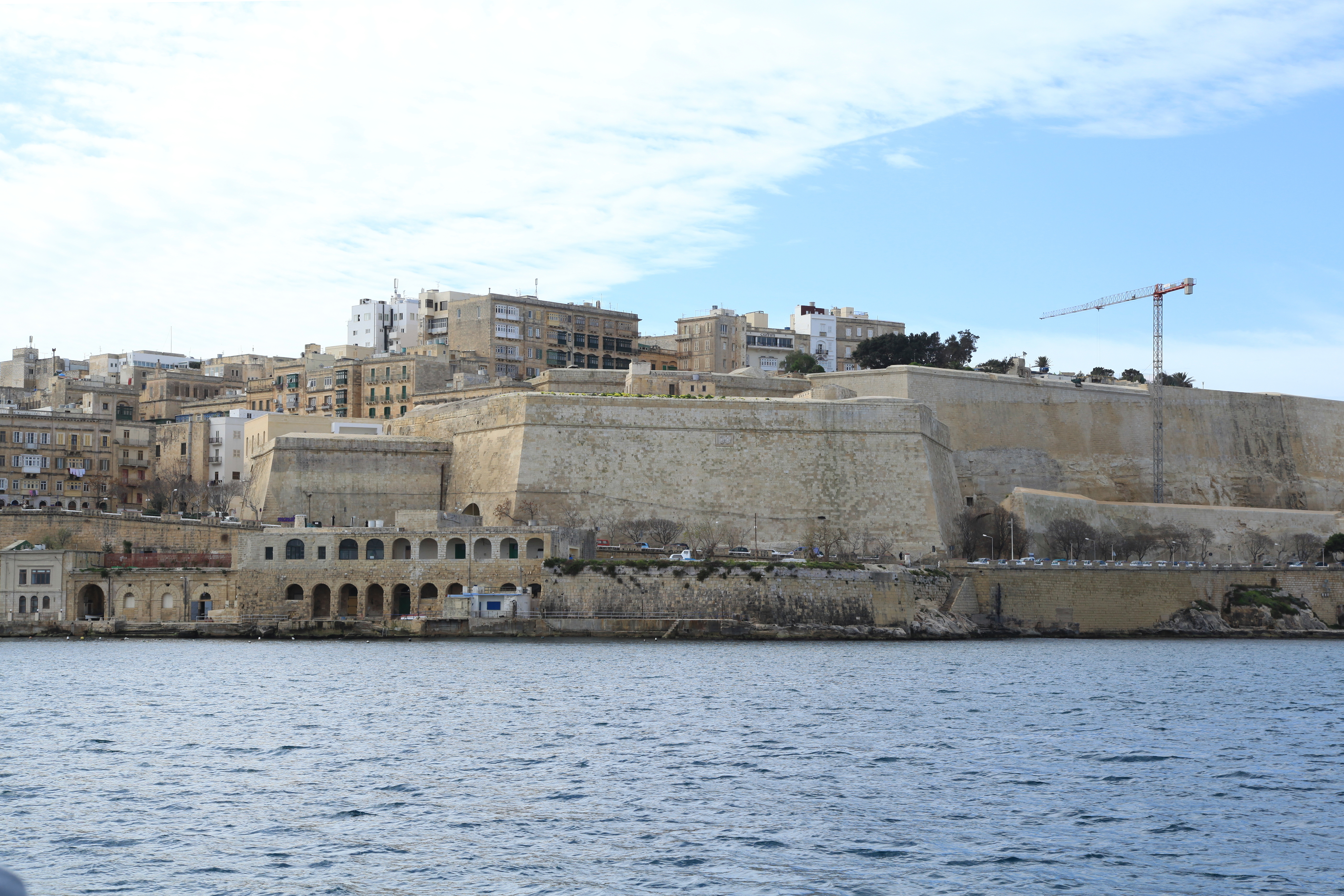 View from the Ferry Sliema - Valletta to Triq l-Assedju l-Kbir and St. Andrew's Bastion in Valletta, Malta